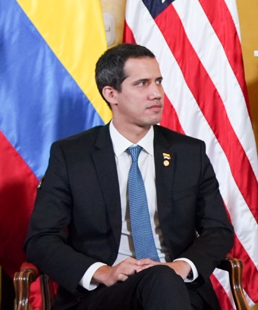 Vice President Mike Pence meets with Colombian President Ivan Duque and Venezuelan President Juan Guaido to discuss the humanitarian situation in Venezuela Monday, Feb. 25, 2019, at the Foreign Ministry in Bogota, Colombia. (Official White House Photo by D. Myles Cullen)